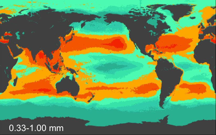 Model results for the count density of planktonic plastic particles in the size range 0.33–1.00 mm See: Eriksen, M., Lebreton, L.C., Carson, H.S., Thiel, M., Moore, C.J., Borerro, J.C., Galgani, F., Ryan, P.G. and Reisser, J. (2014) "Plastic pollution in the world's oceans: more than 5 trillion plastic pieces weighing over 250,000 tons afloat at sea". PloS One, 9 (12): e111913.